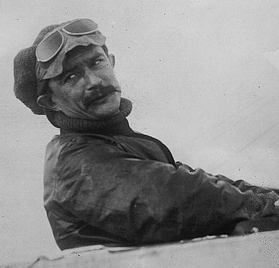 French aviator Jules Védrines (1881-1919)